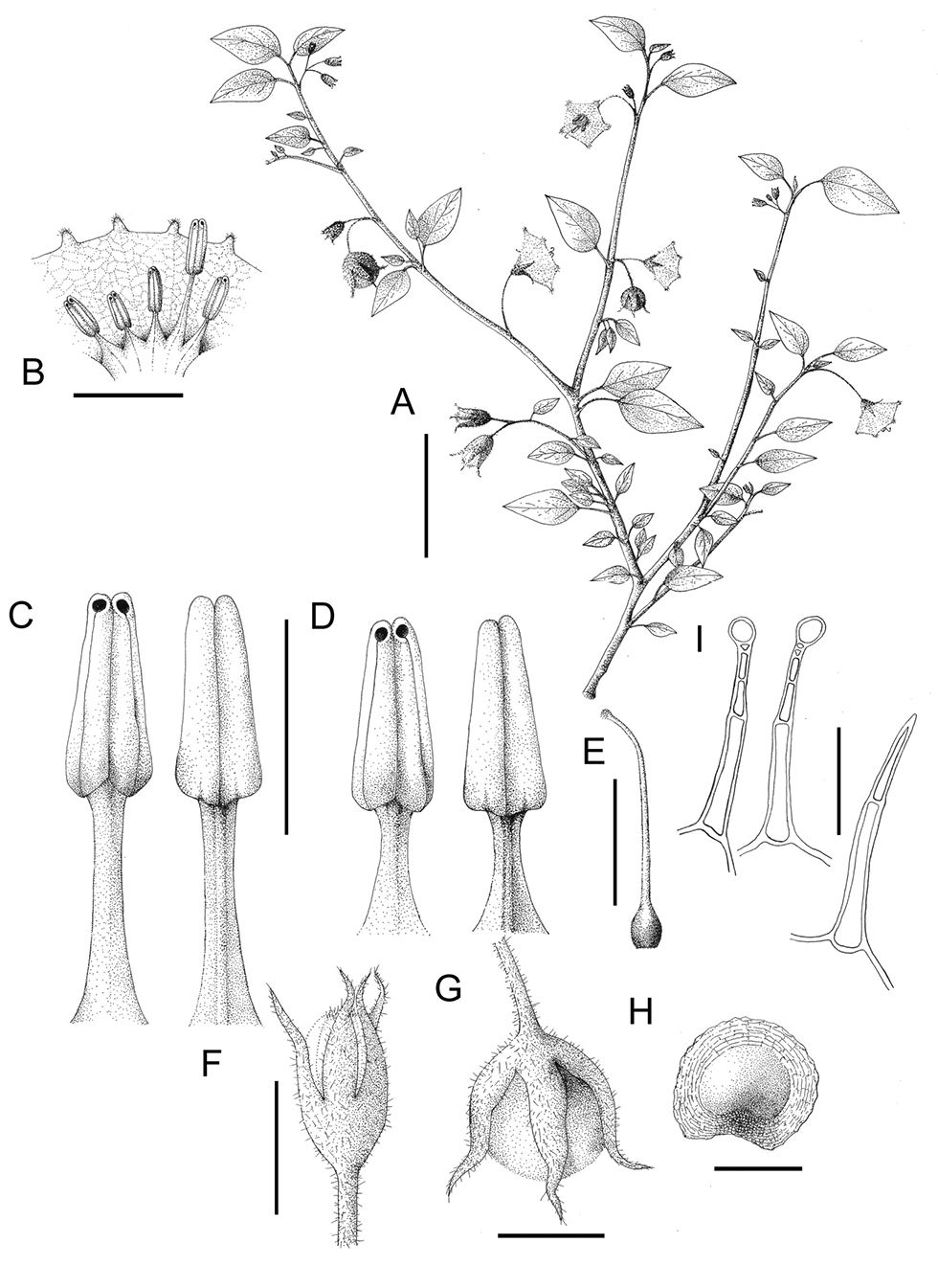 Solanum evolvuloides Giacomin & Stehmann. A Habit B Corolla cross section showing stamens C Larger stamen in ventral and dorsal view D Smaller stamens in ventral and dorsal view E Gynoecium F Young bud G Fruit H Seed I Detail of the hairs of stems, peduncles and calyces (glandular) and leaves (eglandular). All from Mattos-Silva s.n. (CEPEC-15698). Scale bars A= 3 cm; B, C, D, E, F and G = 5 mm; H = 2 mm ; I = 0.2 mm.